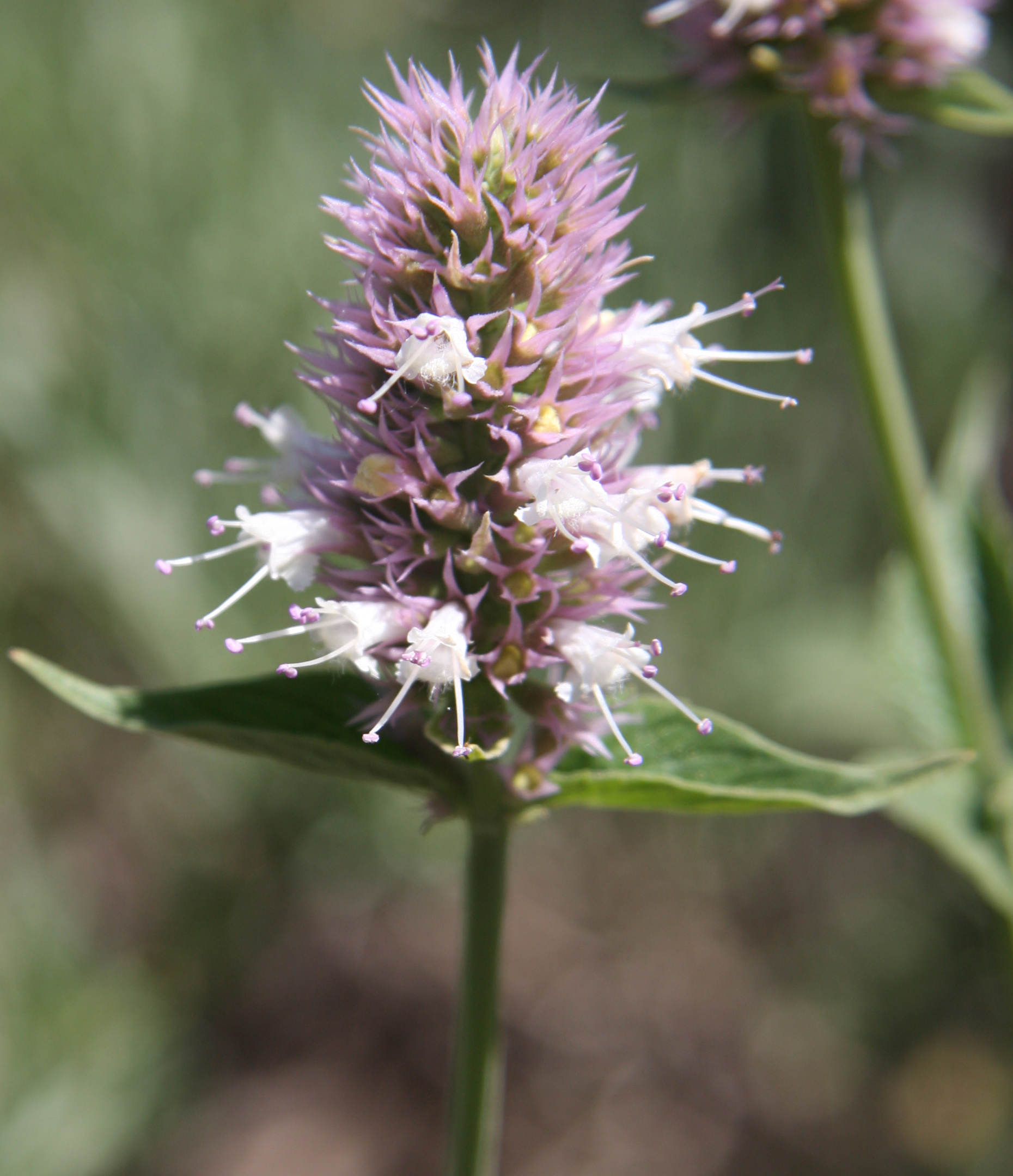 Horsemint (Agastache urticifolia), closeup of flowerhead. At about 9000ft along the High Trail (part of Pacific Crest Trail) from Agnew Meadows to Agnew Pass, Ansel Adams Wilderness, CA.